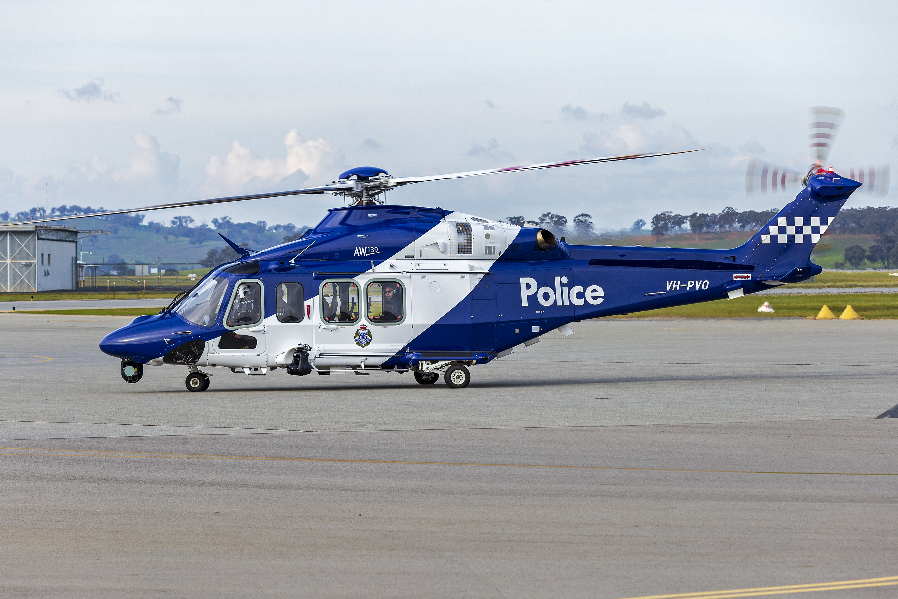 Victoria Police, operated by Starflight Victoria, (VH-PVO) Leonardo Helicopters AW139 at Wagga Wagga Airport.